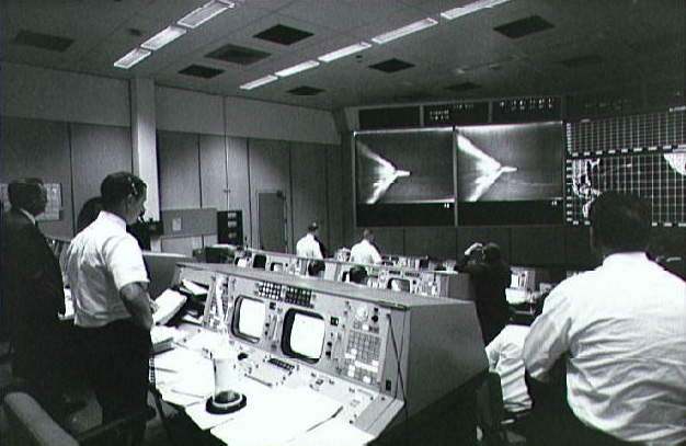 Collection: NASA Johnson Space Center Collection Title: Activity in the Mission Control Room during launch of Apollo 4 Description: Overall view of activity in the Mission Operations Control Room in the Mission Control Center at the Manned Spacecraft Center during the launch of the unmanned earth-orbital Apollo 4 space mission. The flight controllers are watching the Saturn V staging on the televison monitor. Apollo 4 was the first launch of the Saturn V space vehicle. Date Taken: 1967-11-09 Photo ID: S67-50312 UID: SPD-JSC-S67-50312 Original url: Visit for the most comprehensive compilation of NASA stills, film and video, created in partnership with Internet Archive.